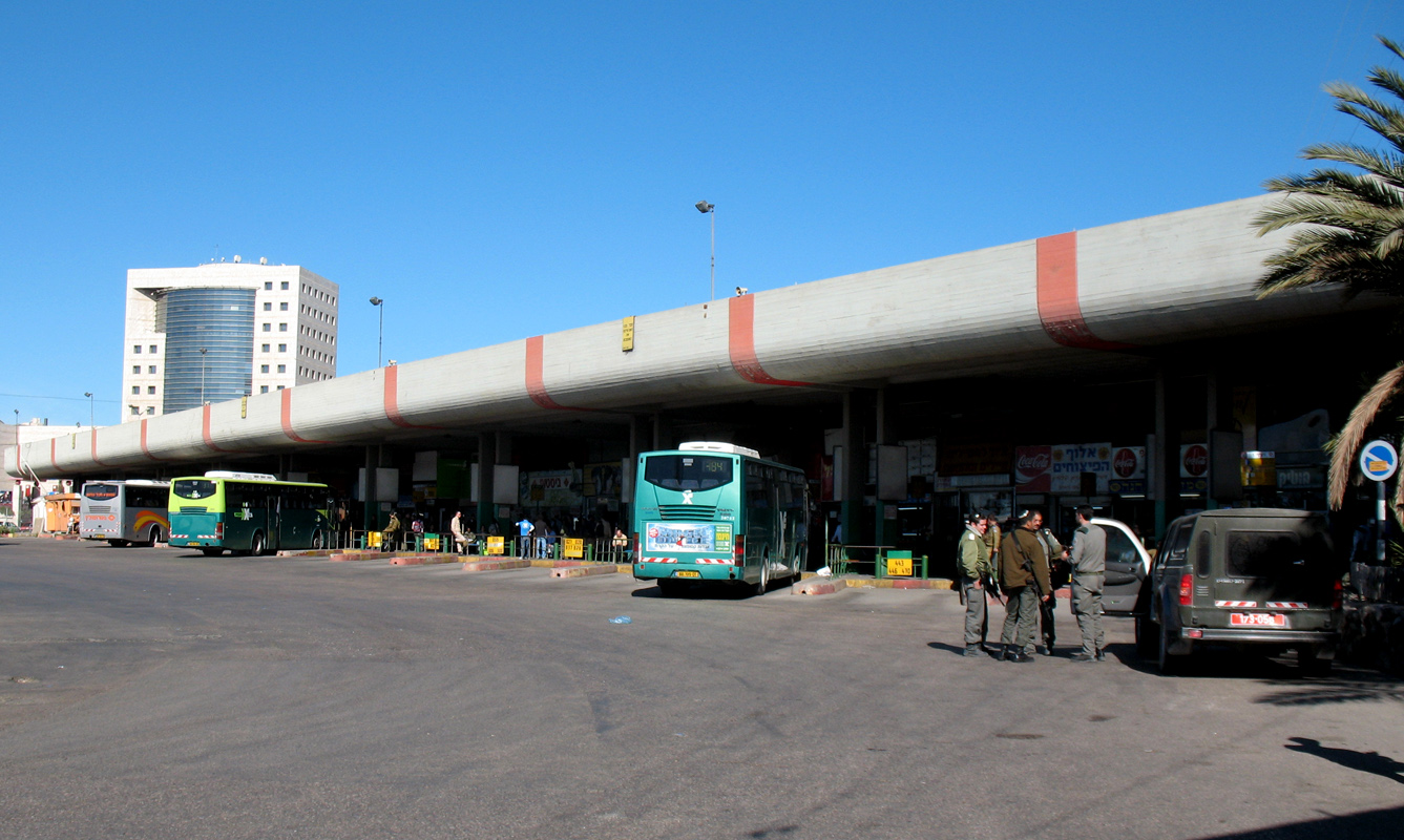 Beersheba Central Bus Station - inter-city platforms.